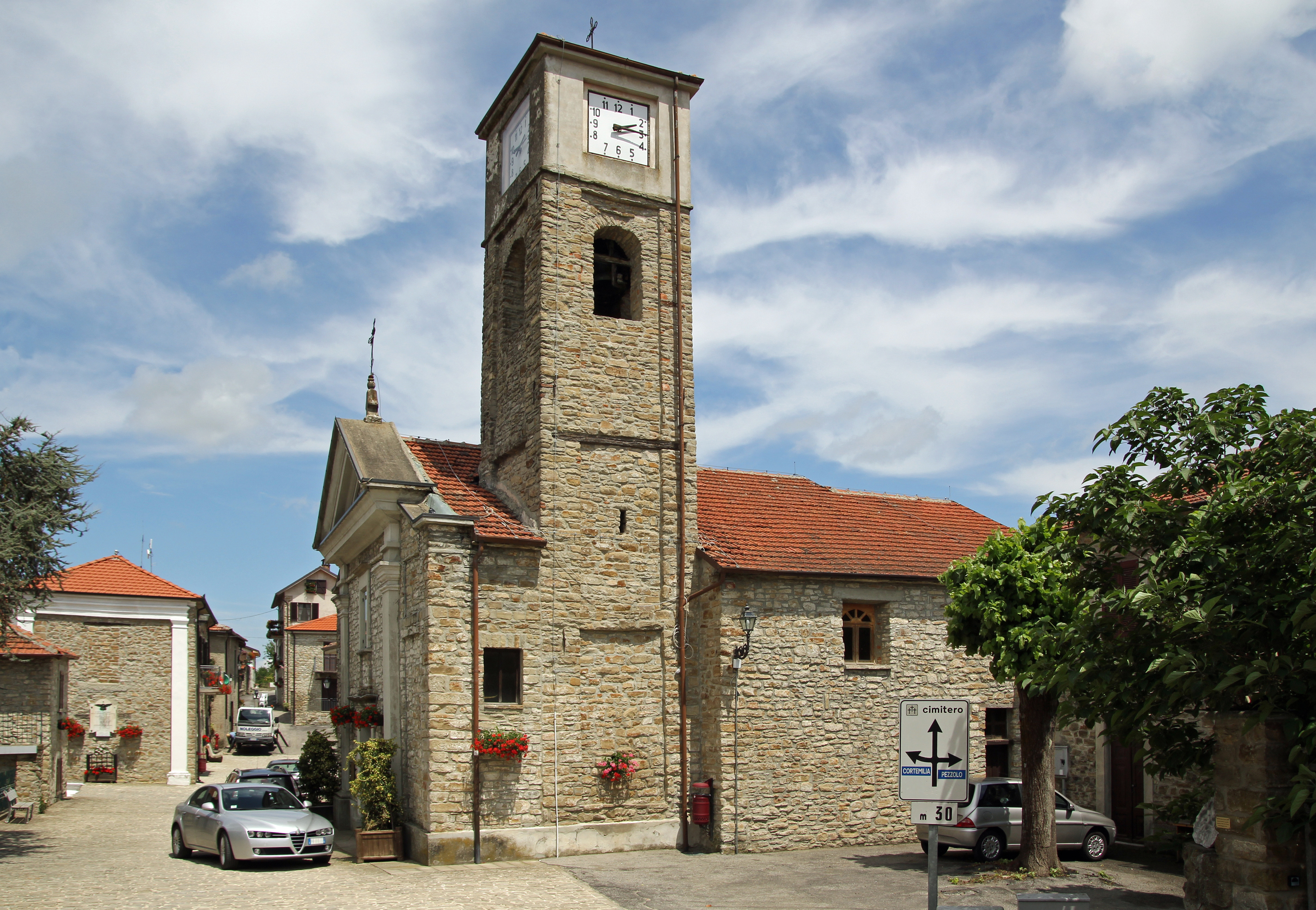 Bergolo, Italia: Church of Natività di Maria Vergine